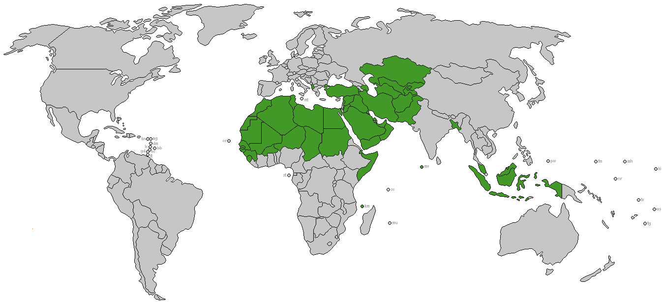 Map of Muslim majority countries (2 other Muslim majority countries, Ivory Coast and Bosnia and Herzegovia are missing on this map)